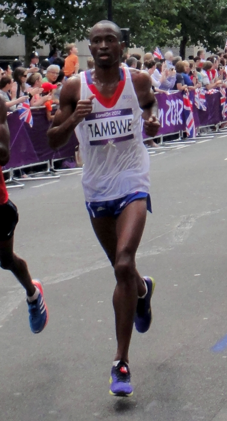 French runner Patrick Tambwé during the marathon at the 2012 Summer Olympics in London